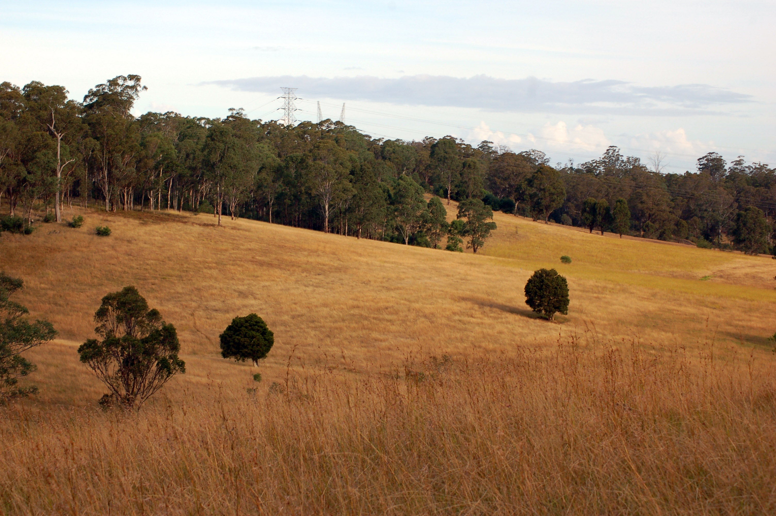 Looking over the Regional Park from Fairfield City Farm.